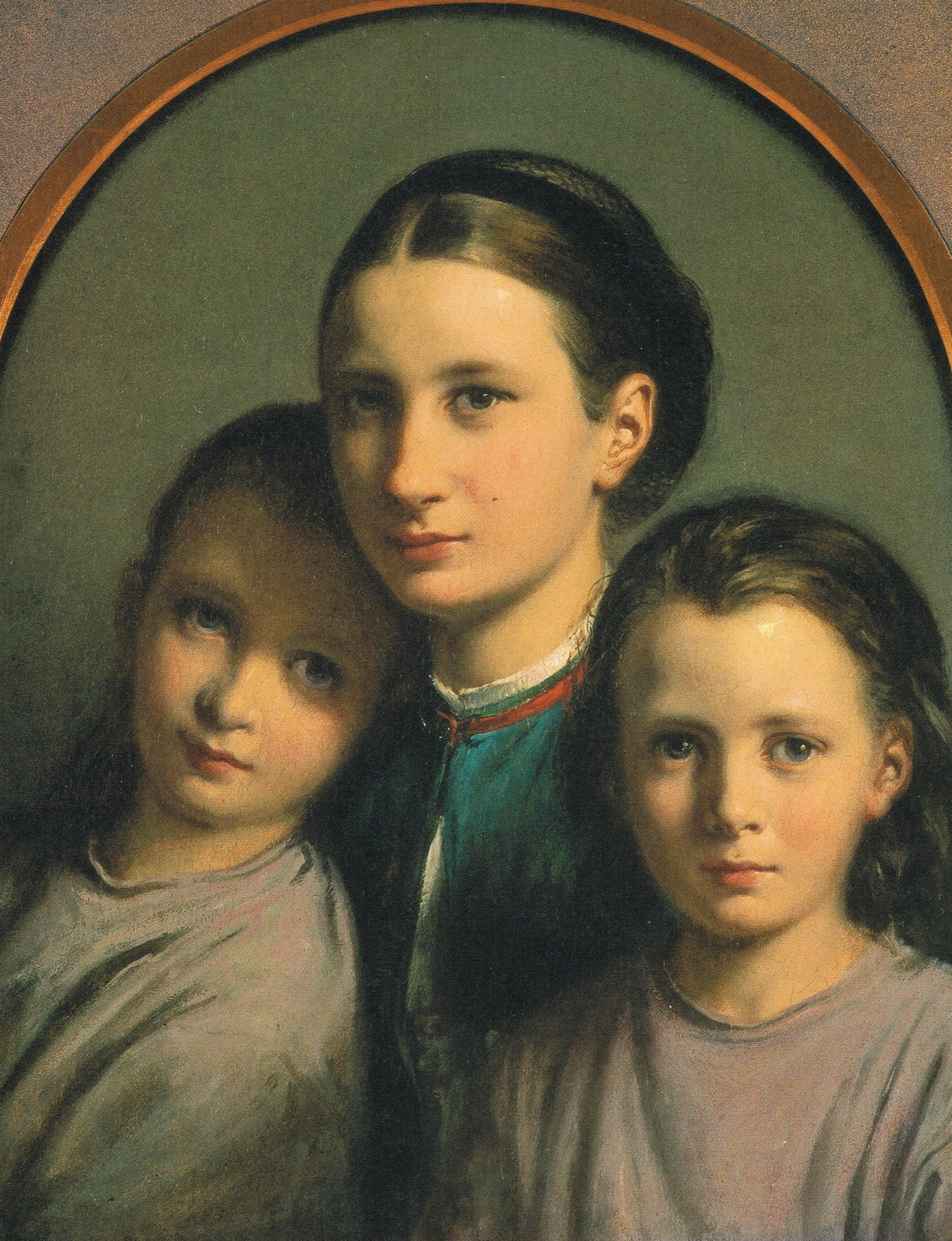 Painting (c 1871) by Wilhelm Marstrand, representing his 3 daughters. Left to right: Othilia, Julie, and Christy Marstrand.